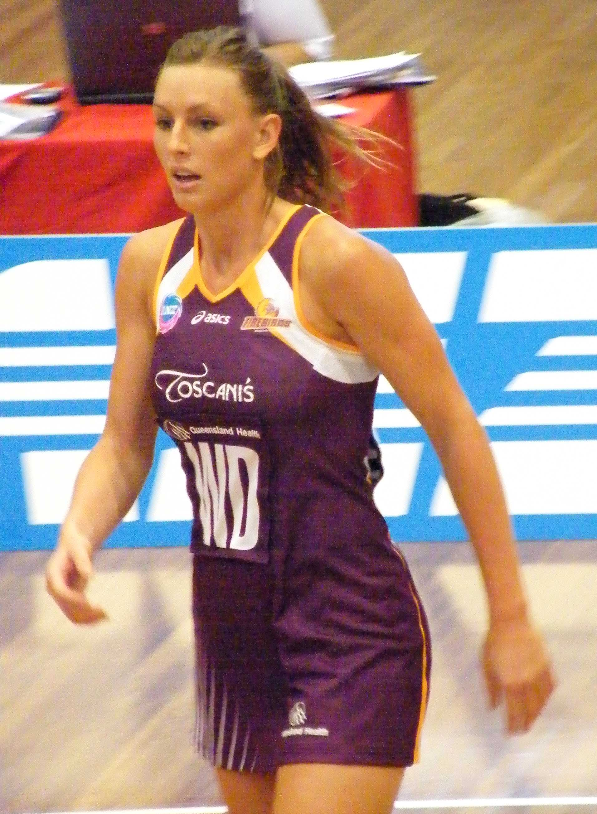 Keirra Trompf of the Queensland Firebirds in the 2009 ANZ Championship.